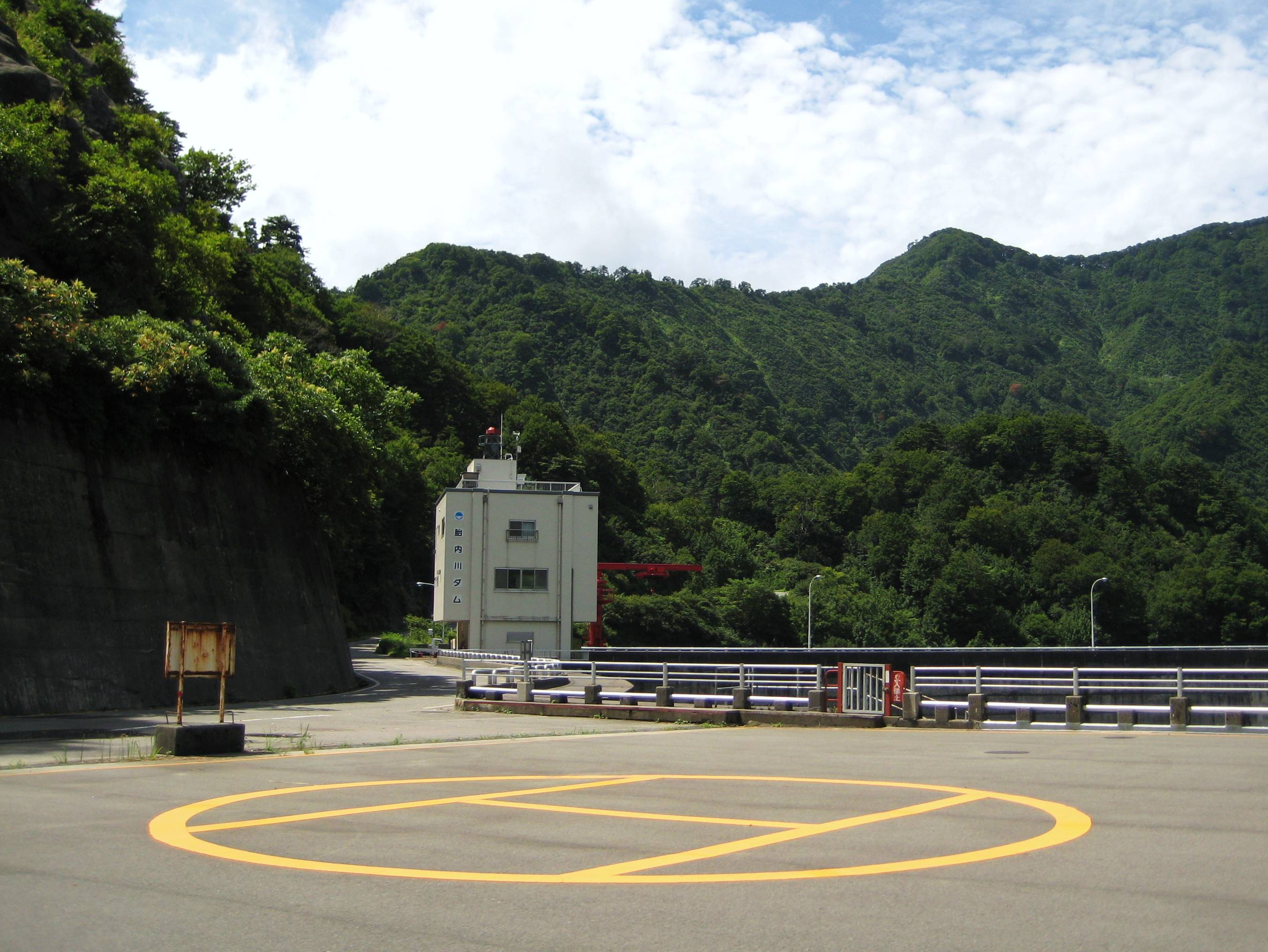 Tainaigawa Dam heliport.